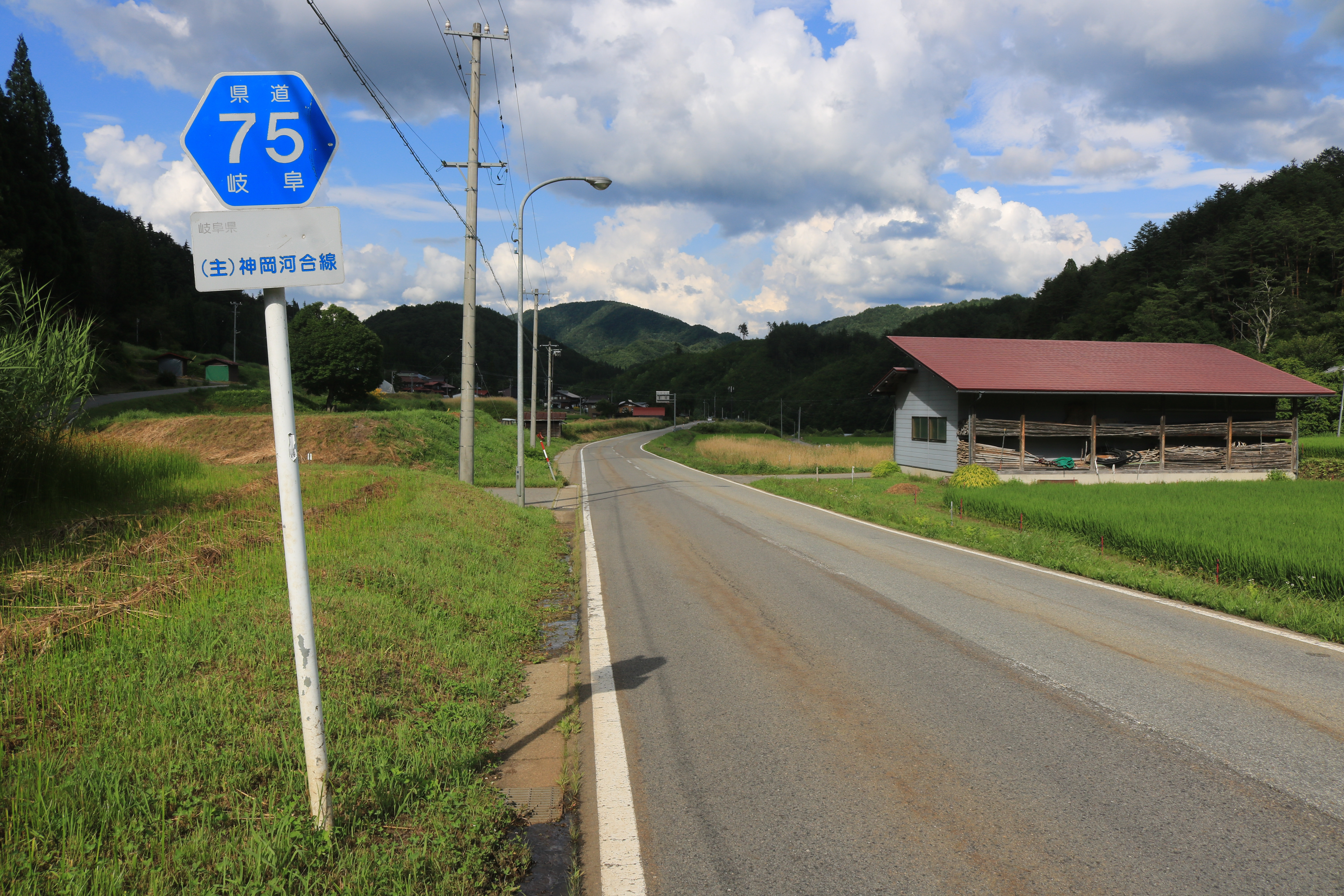 Gifu Prefectural Road Route 75 in Kashihara, Kamioka-cho, Hida, Gifu prefecture, Japan.